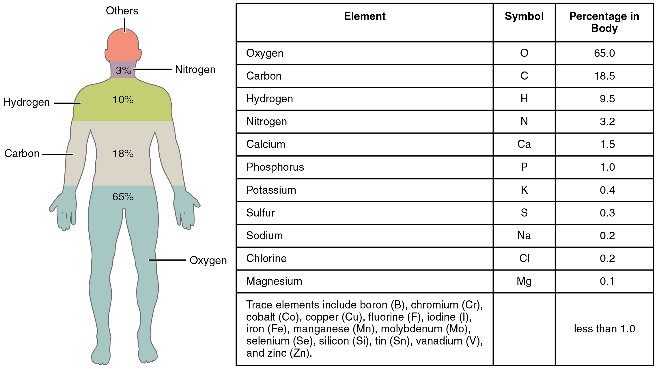 The main elements that compose the human body, by mass percent, are shown from most abundant to least abundant element. The atomic fractions (fractions of atoms) are different due to differing atomic weights. As in water, oxygen contributes the most mass, but hydrogen is the most common atom.